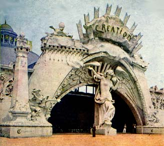 Entrance to the exhibit "Creation" at the 1904 St. Louis World's Fair. It was situated on the Fair's mile long entertainment midway, called "The Pike". "Creation", which took place in the blue dome in the background, was an amusement spectacle portraying the first 6 days in the Book of Genesis. This exhibit was dismantled and moved to Coney Island's Dreamland amusement park at the end of the Fair.[1]